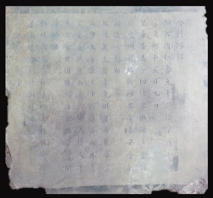 Oldest Han Chinese inscribed stele in Vietnam. Bluestone. Dated 601 AD when kingdom of Van Xuan accepted vassalage relationship to the Chinese Sui Dynasty